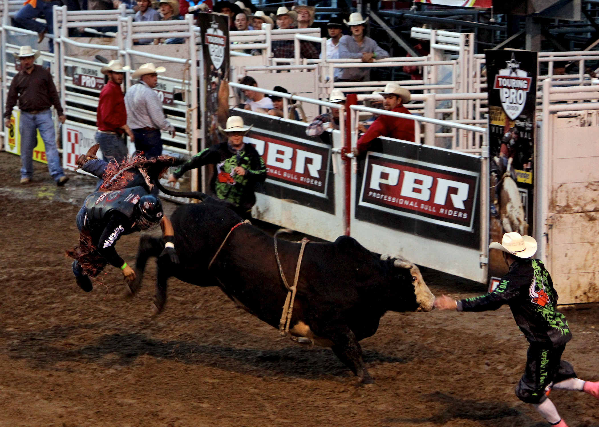 Scenes from the PBR - Buckin' In The Ozarks. Parsons Stadium, Springdale, AR August 03, 2013.